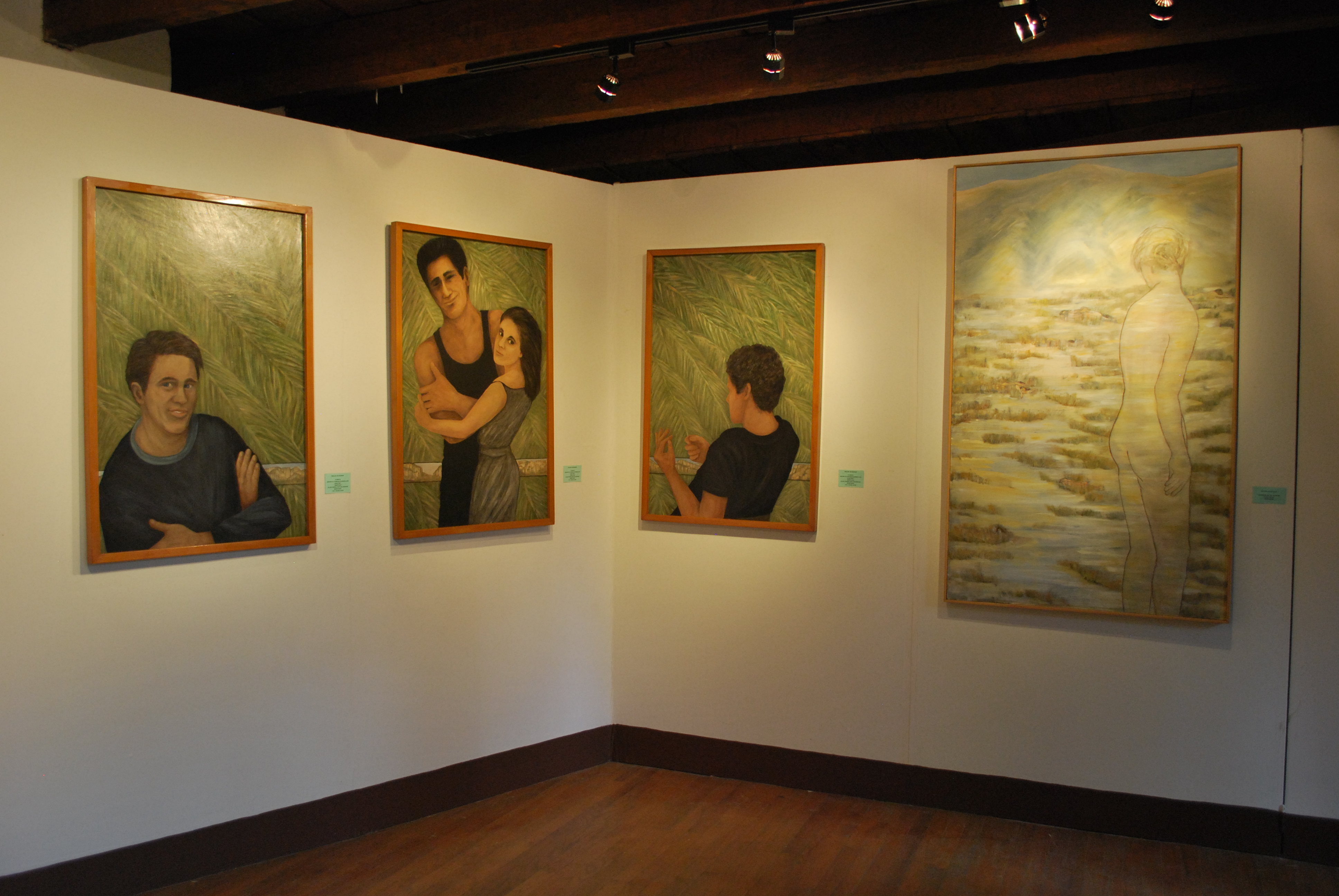 Oils by Helen Birkham at the Joaquin Arcadio Pagazo Museum in Valle de Bravo, Mexico